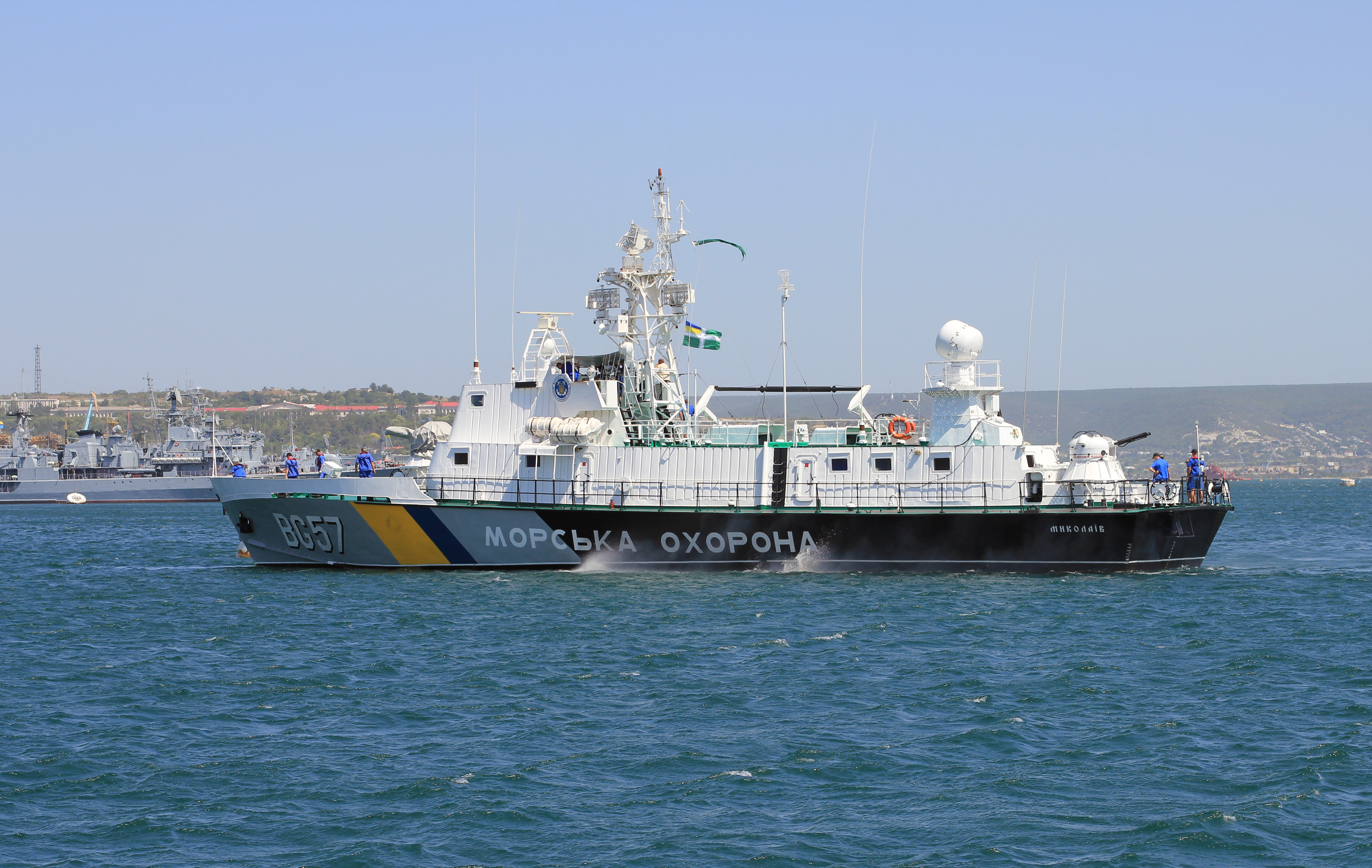 Stenka class patrol boat BG57 Mykolaiv (former soviet PSKR-722 boat). Project 205P. Ukrainian Sea Guard in Sevastopol bay.